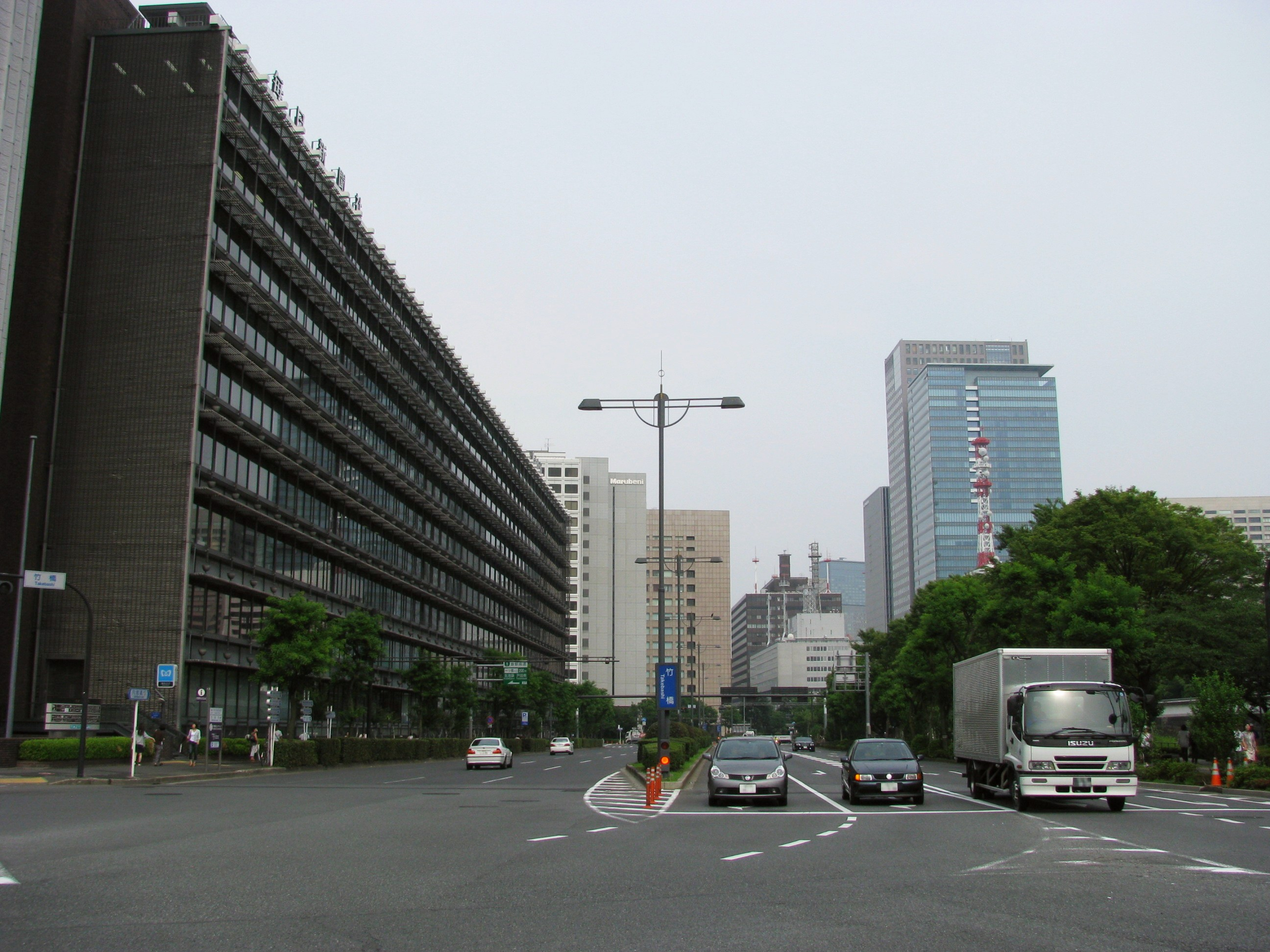 The Tokyo Prefectural Route 401. This location is Hitotsubashi in Chiyoda, Tokyo, Japan.